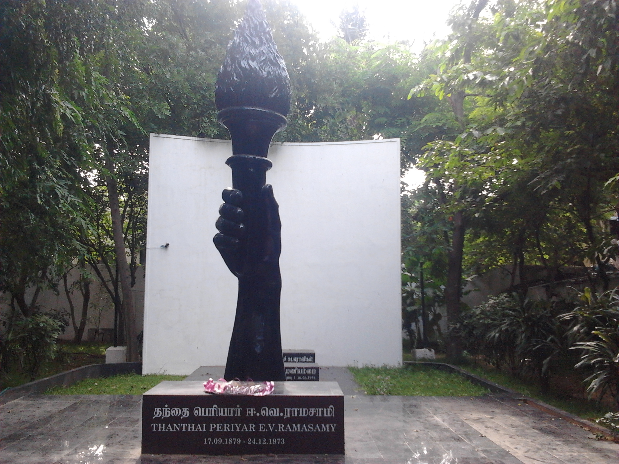 Periyar Thidal at Vepery, where Periyar's body was laid to rest.